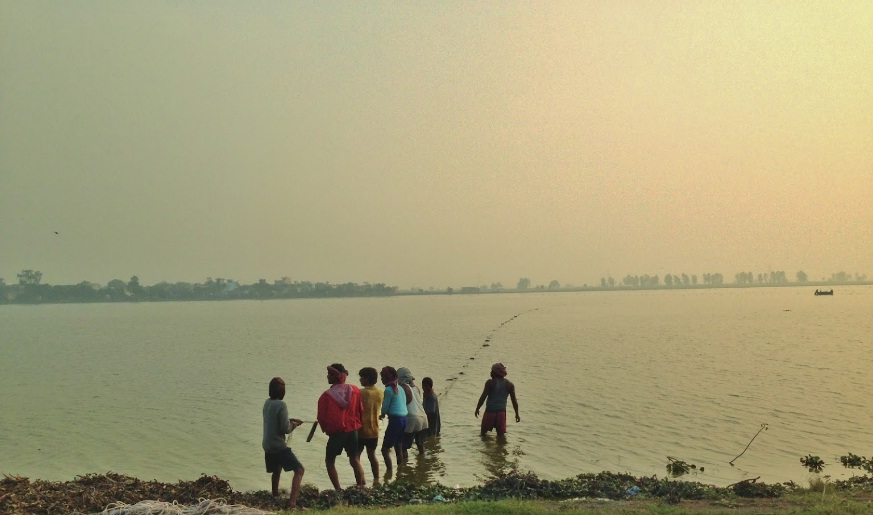 FisherMan